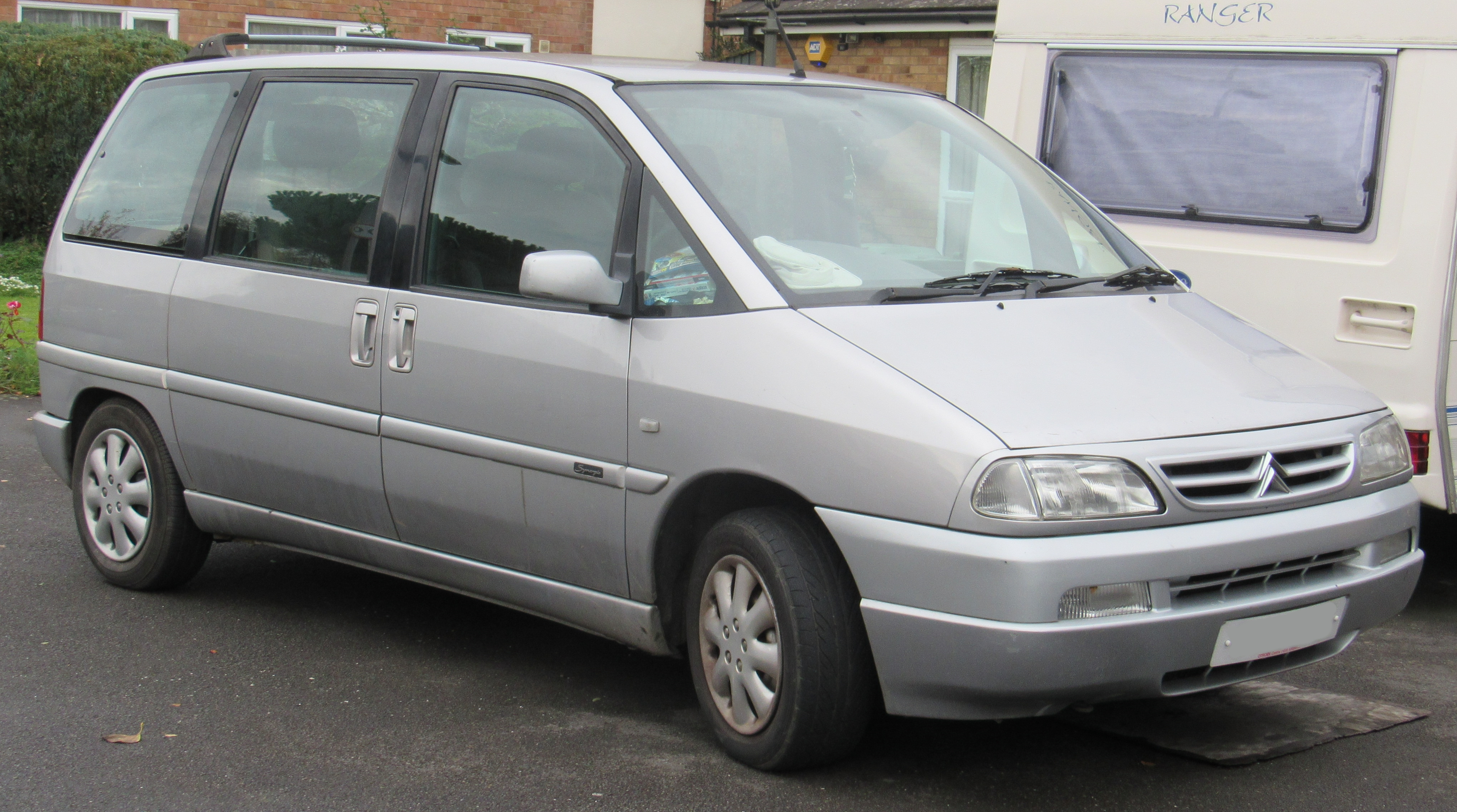 2001 Citroen Synergie SX HDi facelift 2.0 Taken in Warwick